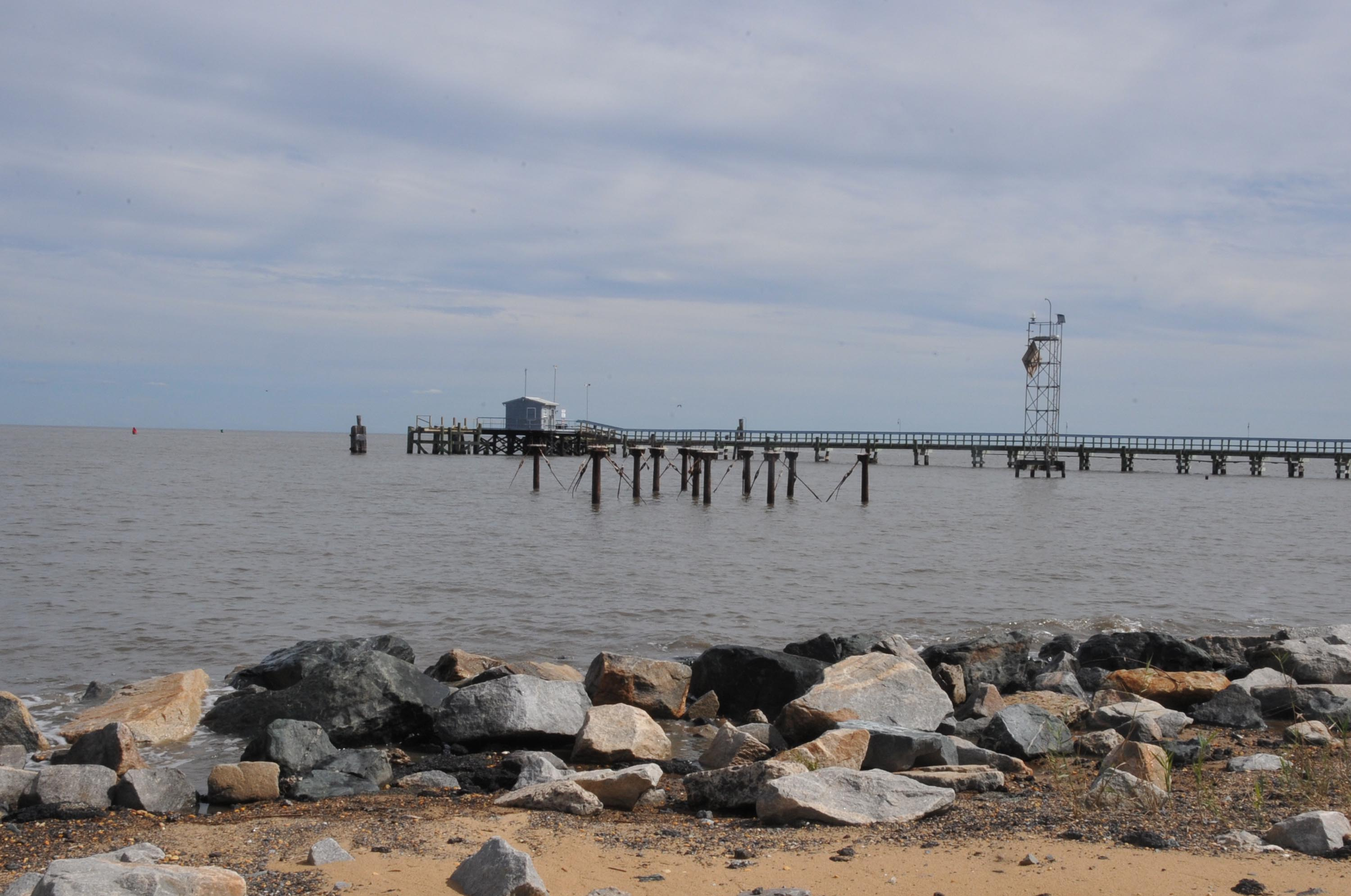 PORT MAHON ALONG DELAWARE BAY JUST EAST OF LITTLE CREEK. IT HAD A LIGHTHOUSE WHICH WAS ARSONED BY SOME KIDS. ALL THAT REMAINS NOW ARE THE PILINGS IN THE FOREGROUND THIS SIDE OF THE PIER